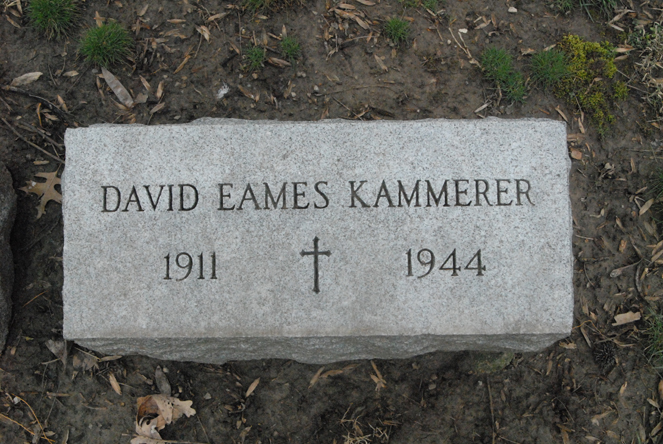 David Kammerer